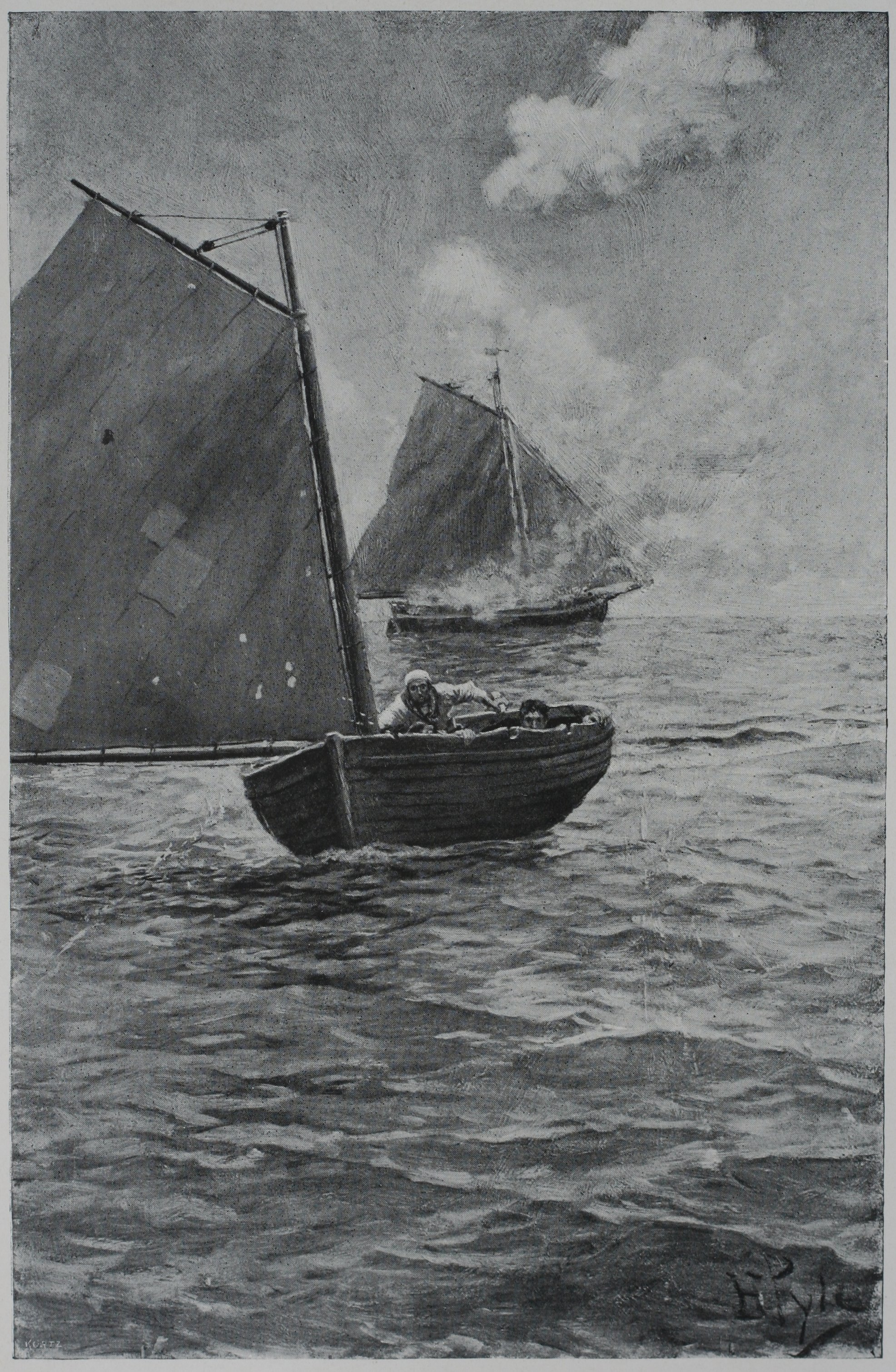 The Bullets Were Humming and Singing, Clipping Along the Top of the Water: this was originally published in Pyle, Howard (1894) Jack Ballister's Fortunes, The Century Company